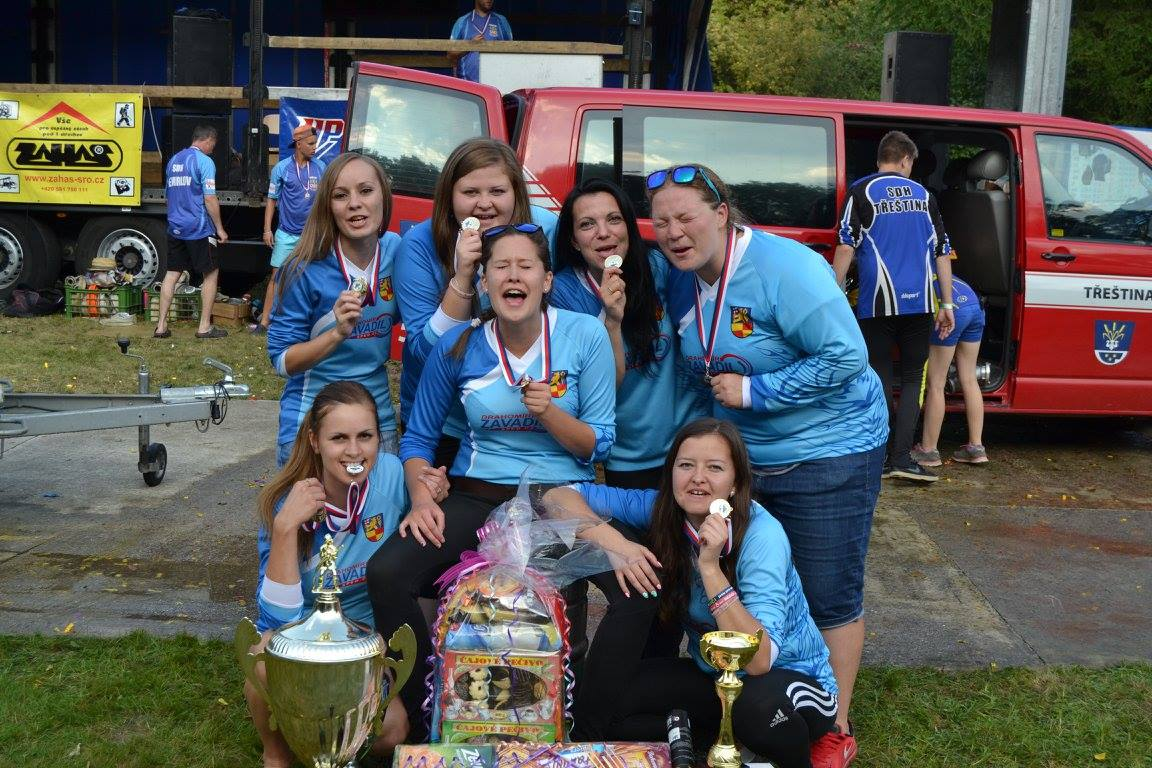 free fire brigade of Dolni Libina, team of women, winner of Holbu cup 2016 and 2017